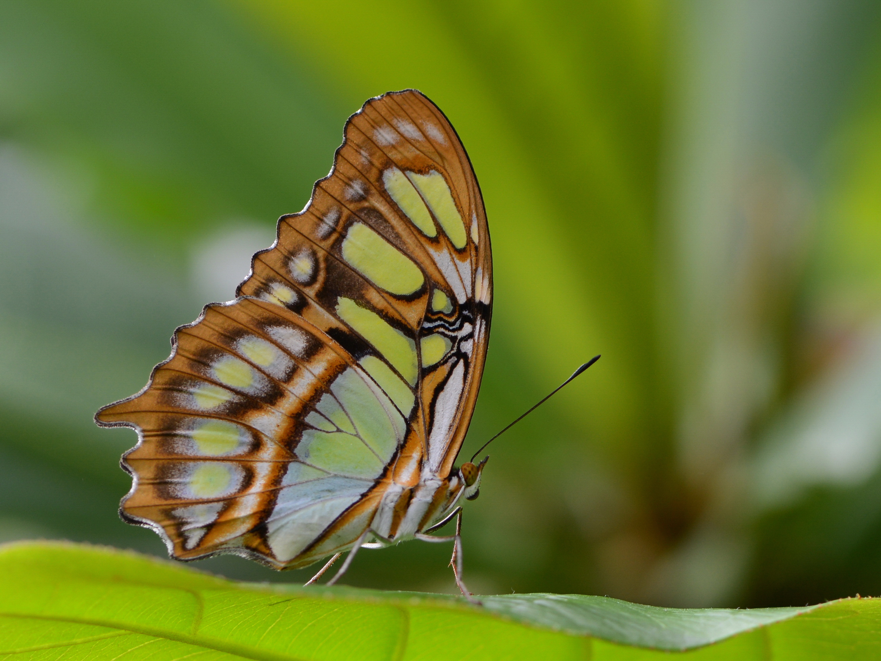 A Malachite butterfly (Siproeta stelenes) as seen at Mainau.